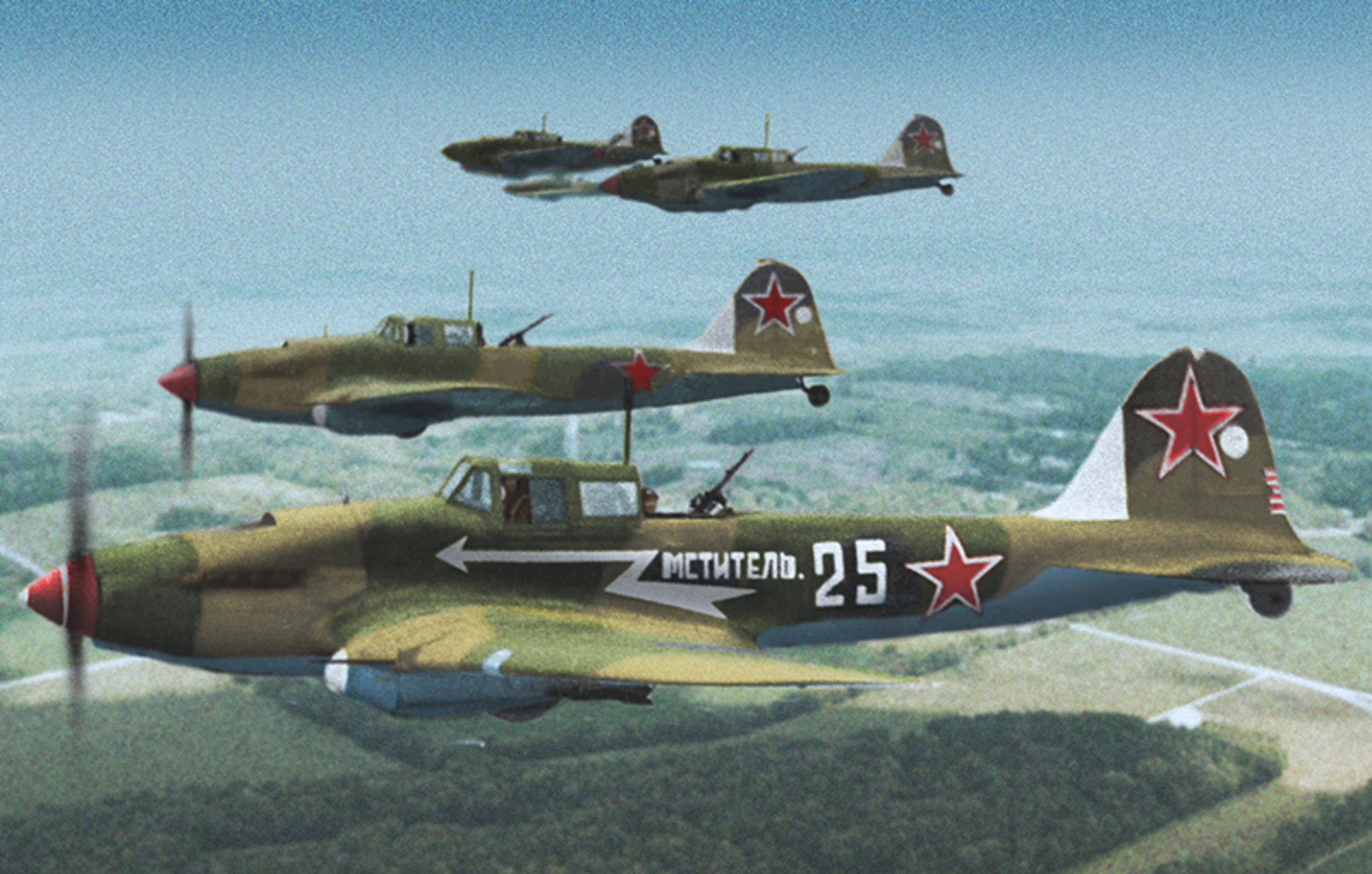 Template:Ccp